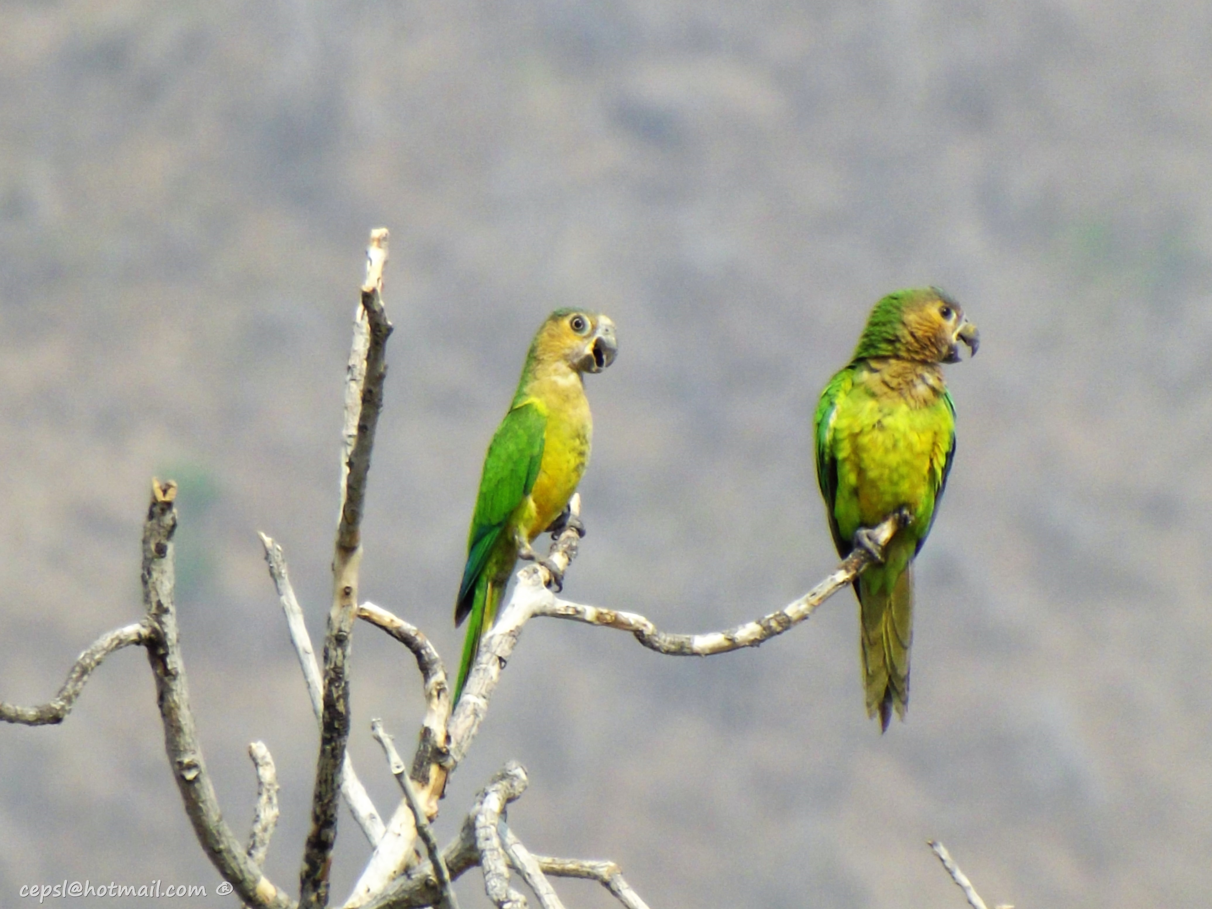 Dirty Face Couple resting on dry branches of a tree late in the afternoon in Maracay - Venezuela